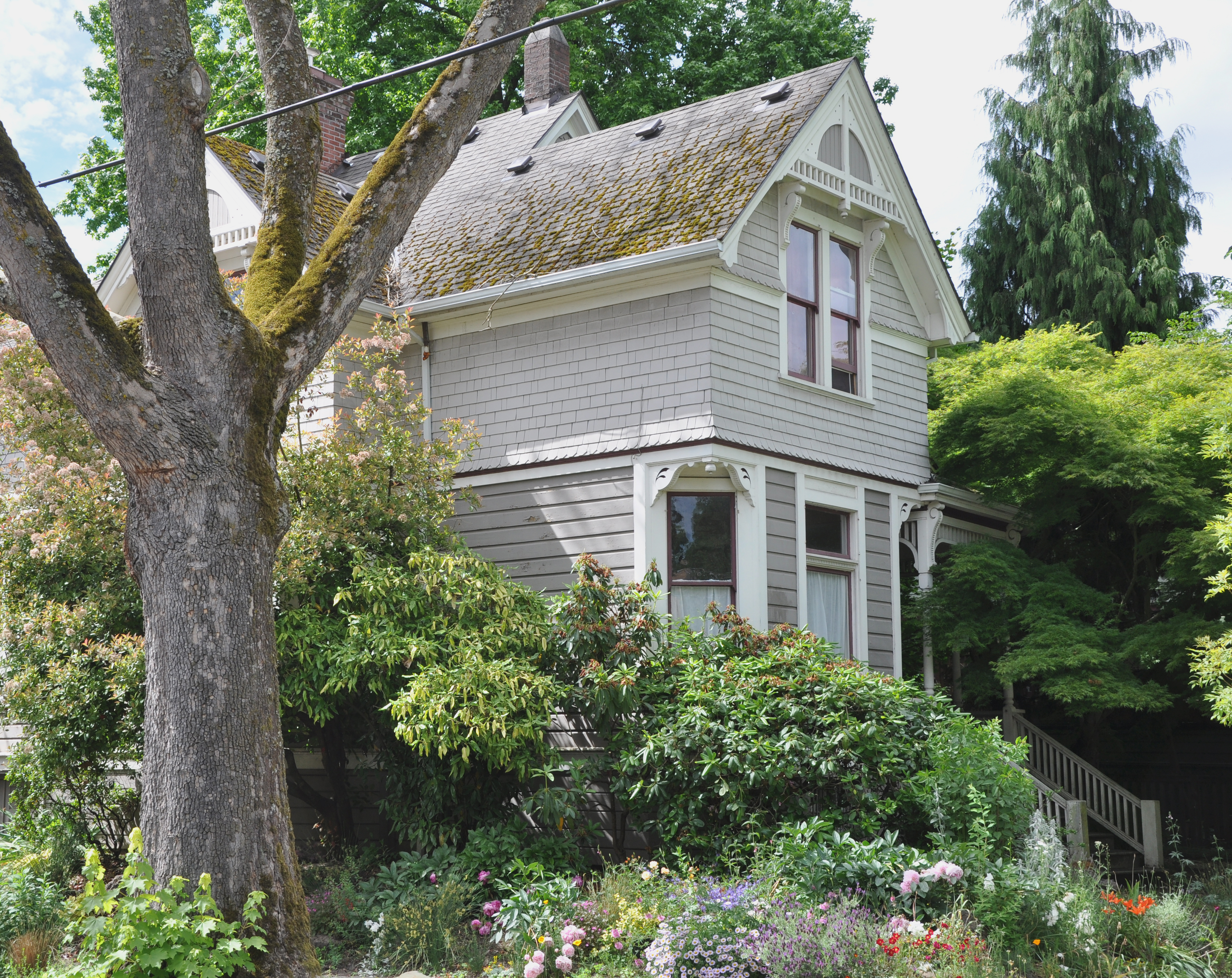 James S. Polhemus House in Portland in the U.S. state of Oregon. The structure is listed on the National Register of Historic Places.